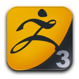 ZBrush Icon.